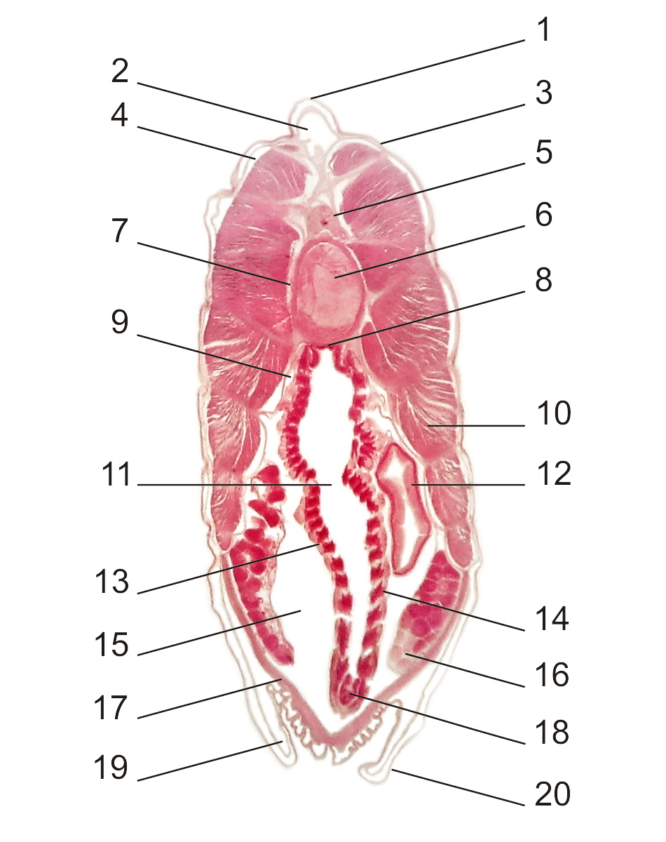 Transverse section of lancelet